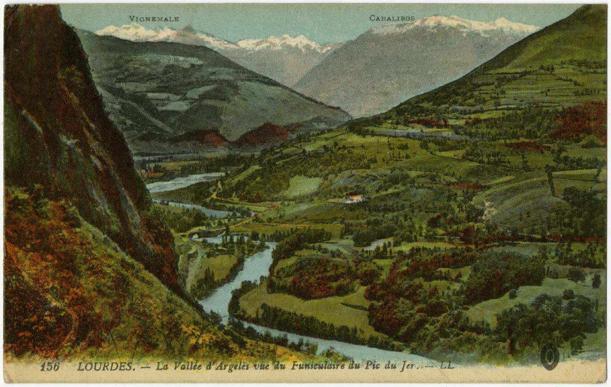 Accession Number: 1977:0067:0035 Maker: Unidentified Photographer Title: 156 LOURDES. - La Vall?d'Argel?vue du Funiculaire du Pic du Jer. - LL Date: ca. 1916 Medium: collotype print (color) Dimensions: Overall: 8.7 x 13.8 cm George Eastman House Collection General – information about the George Eastman House Photography Collection is available at For information on obtaining reproductions go to